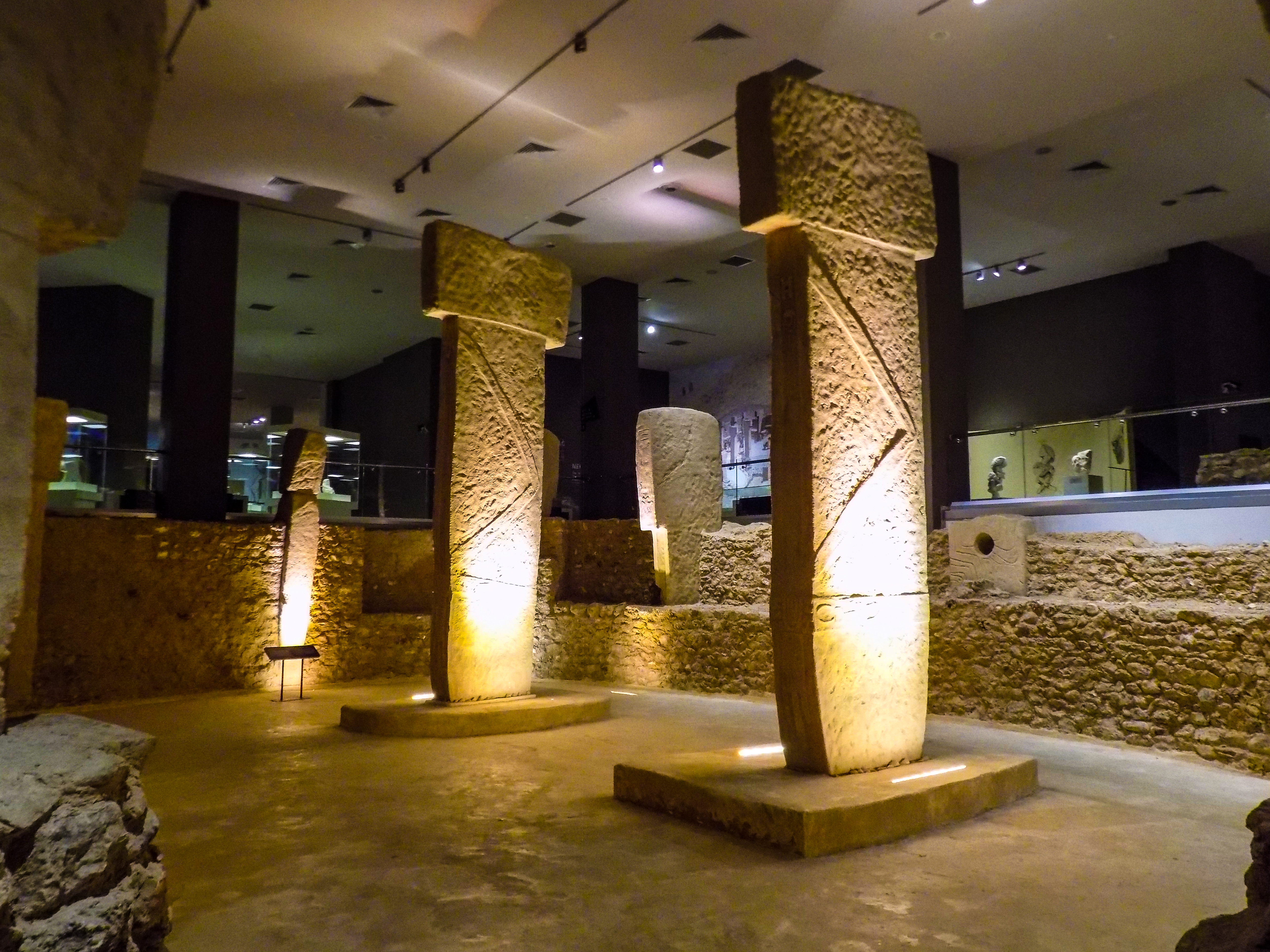 (translation) Göbeklitepe consists of buildings with a diameter of 30 meters and round and oval plan and georadar scans. The excavations of one of them were completed and the others were determined by geomagnetic and georadar methods. The results obtained with these measurements and excavations show that Göbeklitepe is a large meeting place of 11,500 years ago and it is covered with monumental buildings built for ceremonial purposes, not places for daily life. Among these monumental buildings, the most magnificent and preserved temple is the d temple. Temple D is dated to the first phase of the Göbeklitepe ruins (9500-8500 BC). In the center of the temple, with heights up to 6 meters and weights up to 30 tons; 12 steles were placed in the style of the center stelae. In the central steles, it is indisputable that the tiki post is depicted as the arm, hand, belt and garment, and the T steles symbolize the human or human-like saints. There are many animal depictions on the T steles in this temple. These are wild boars, wild oxen, donkeys gazelles, cranes, storks, ibis, ducks and feline as well as a large figure network of snakes and foxes are weighted.